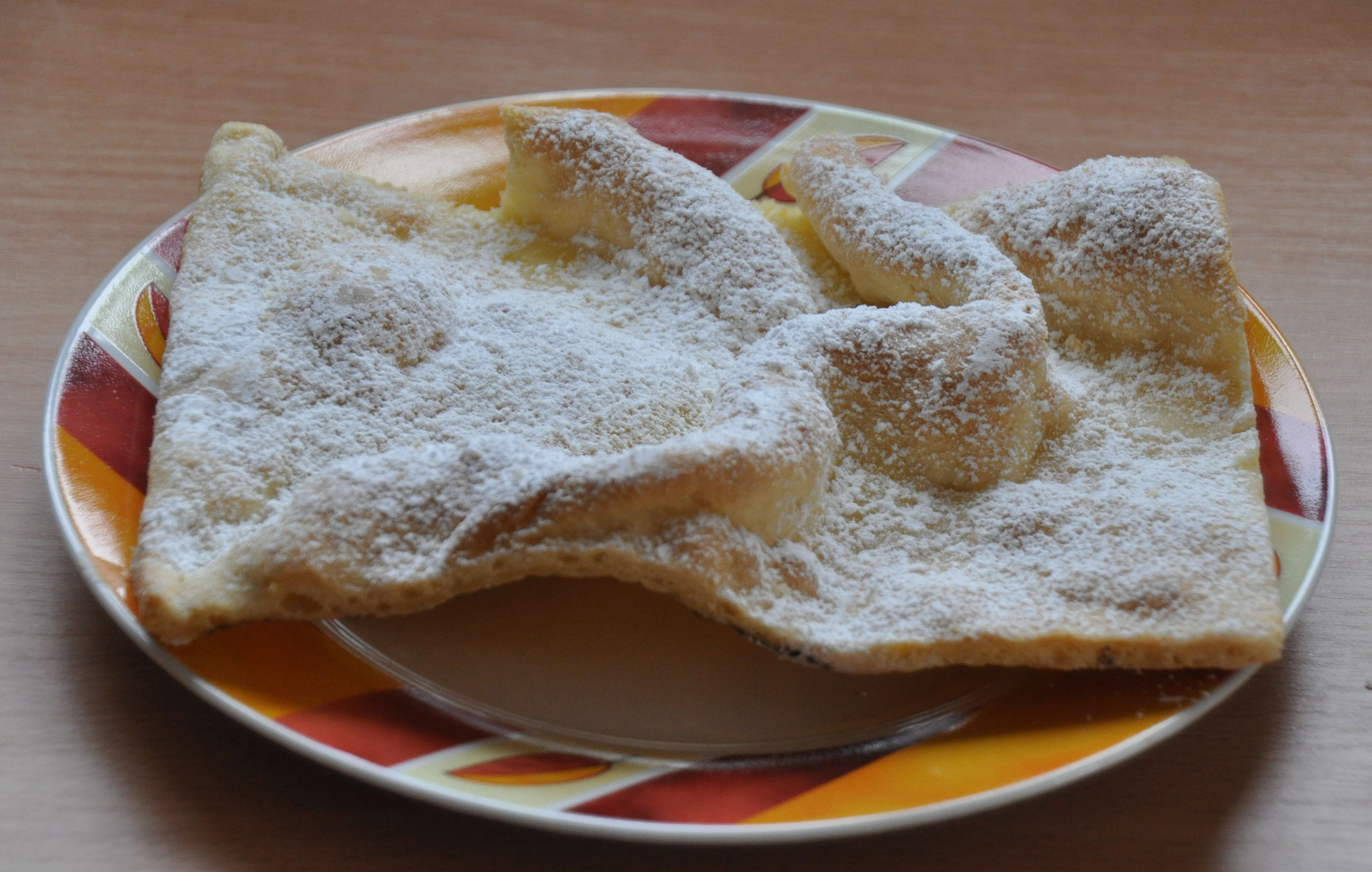 Prophetenkuchen - German speciality from the region of Thuringia (literal translation: "prophets cake")